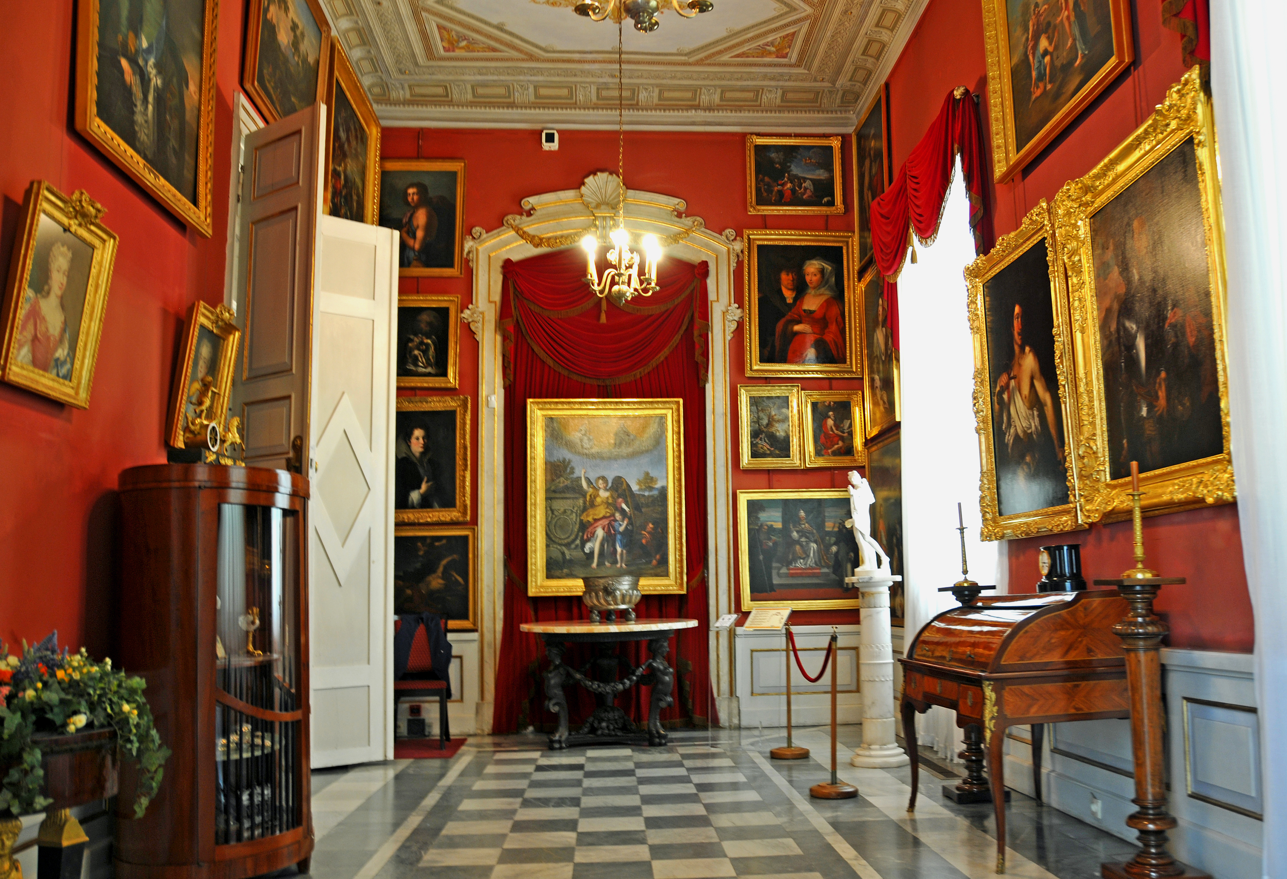 PLEASE, no multi invitations in your comments. Thanks. I AM POSTING MANY DO NOT FEEL YOU HAVE TO COMMENT ON ALL - JUST ENJOY.